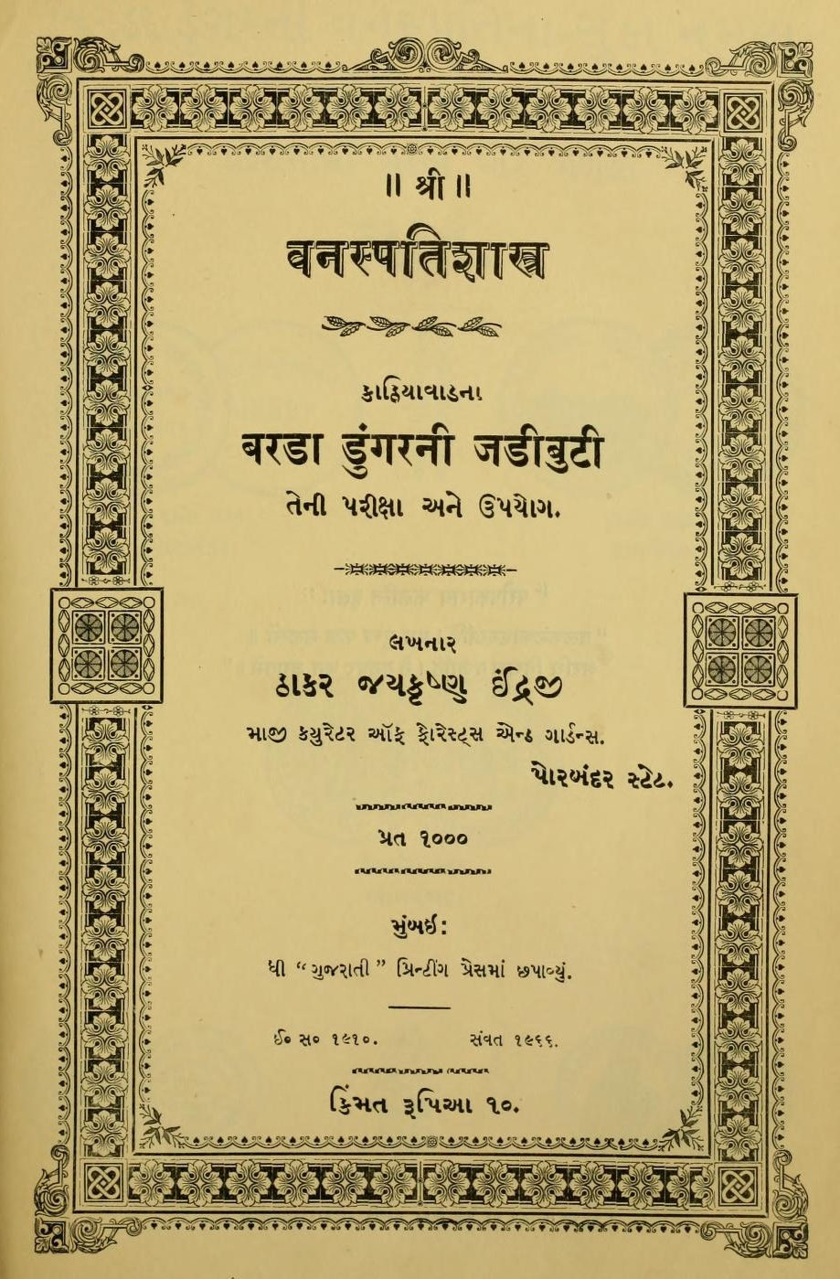 Cover of Flora of Barda by Jayakrishna Indraji